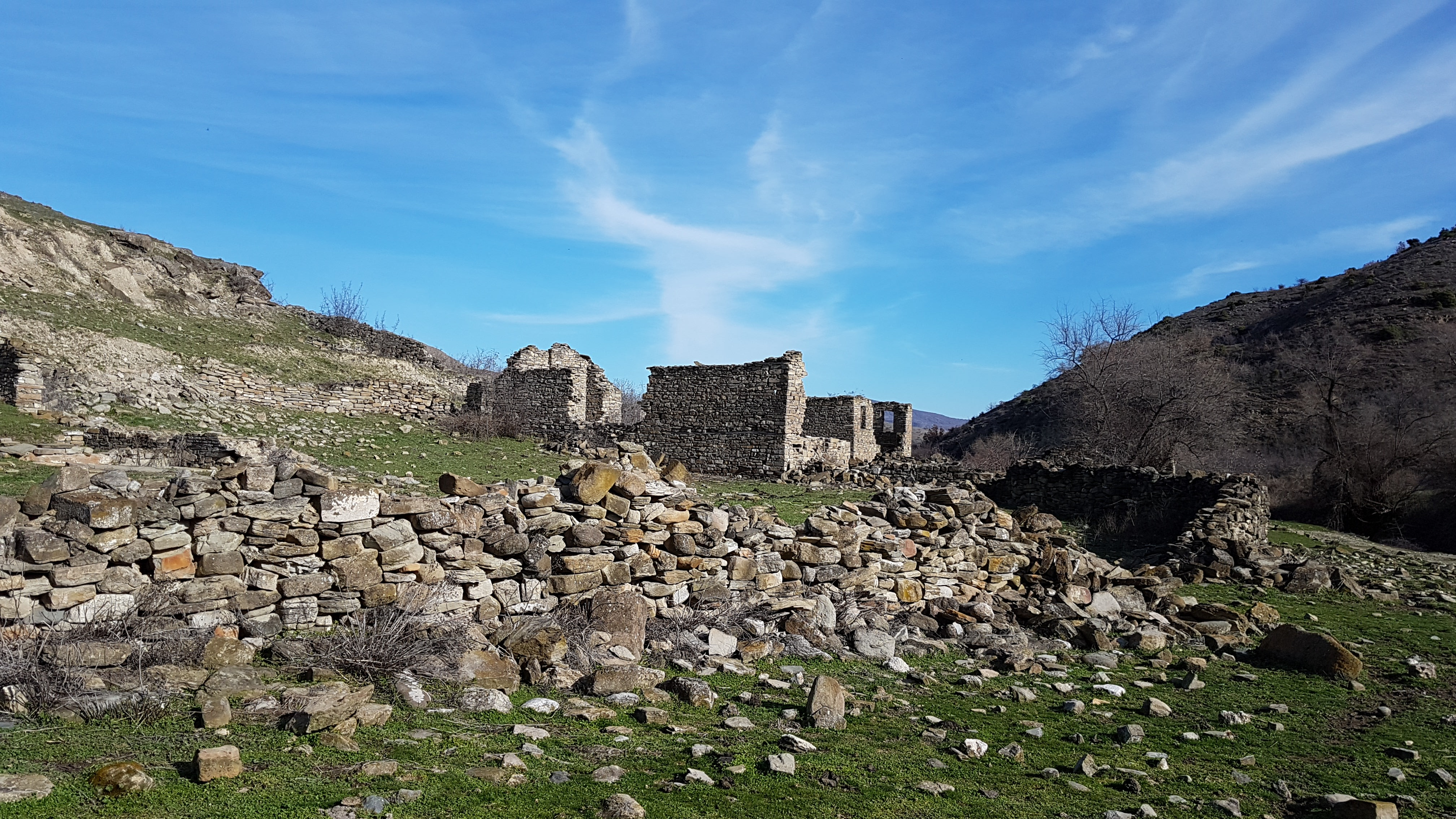 Bekirlija, Veles Macedonia - image taken by Elena Lushkoska